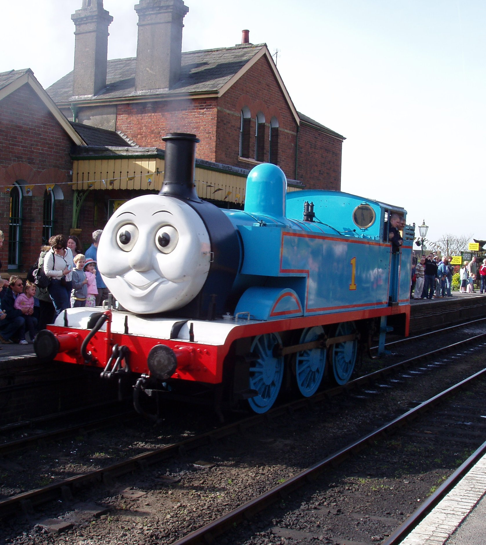 Thomas The Tank Engine, (a rebuilt Hunslet Austerity tank) photographed at Ropley station on The Watercress Line in Hampshire, England.